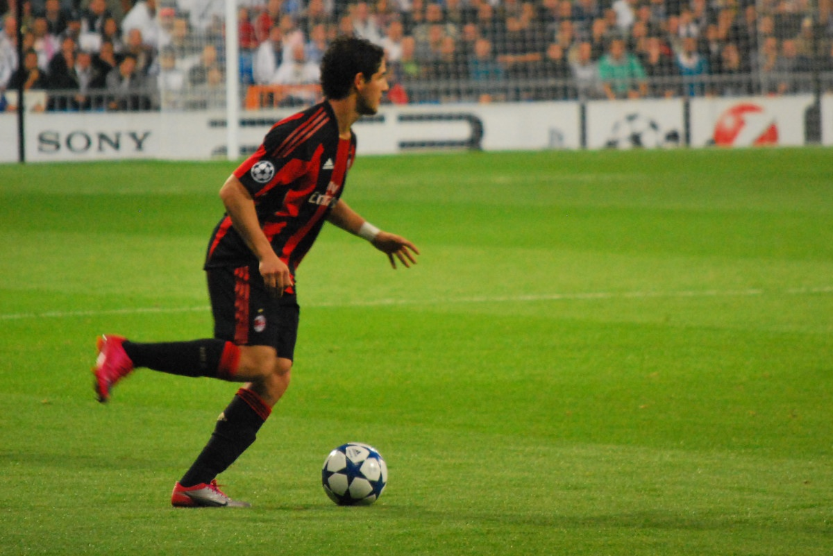 Pato during Real Madrid CF-AC Milan, 2010–11 UEFA Champions League